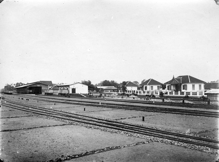 Railwaystation in Klaten, Java